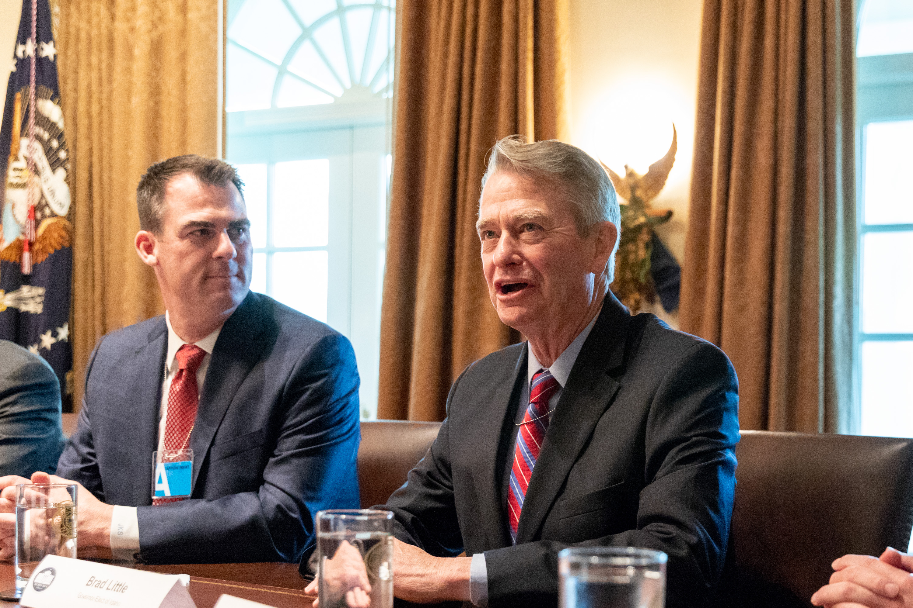 Governor-elect Brad Little, R- Idaho, joins President Donald J. Trump and Vice President Mike Pence, in the Cabinet Room of the White House Thursday, Dec. 13, 2018, during a discussion with Governors-Elect from around the nation. (Official White House Photo by Shealah Craighead) Note: Governor-elect Kevin Stitt, R- Oklahoma, pictured on left.